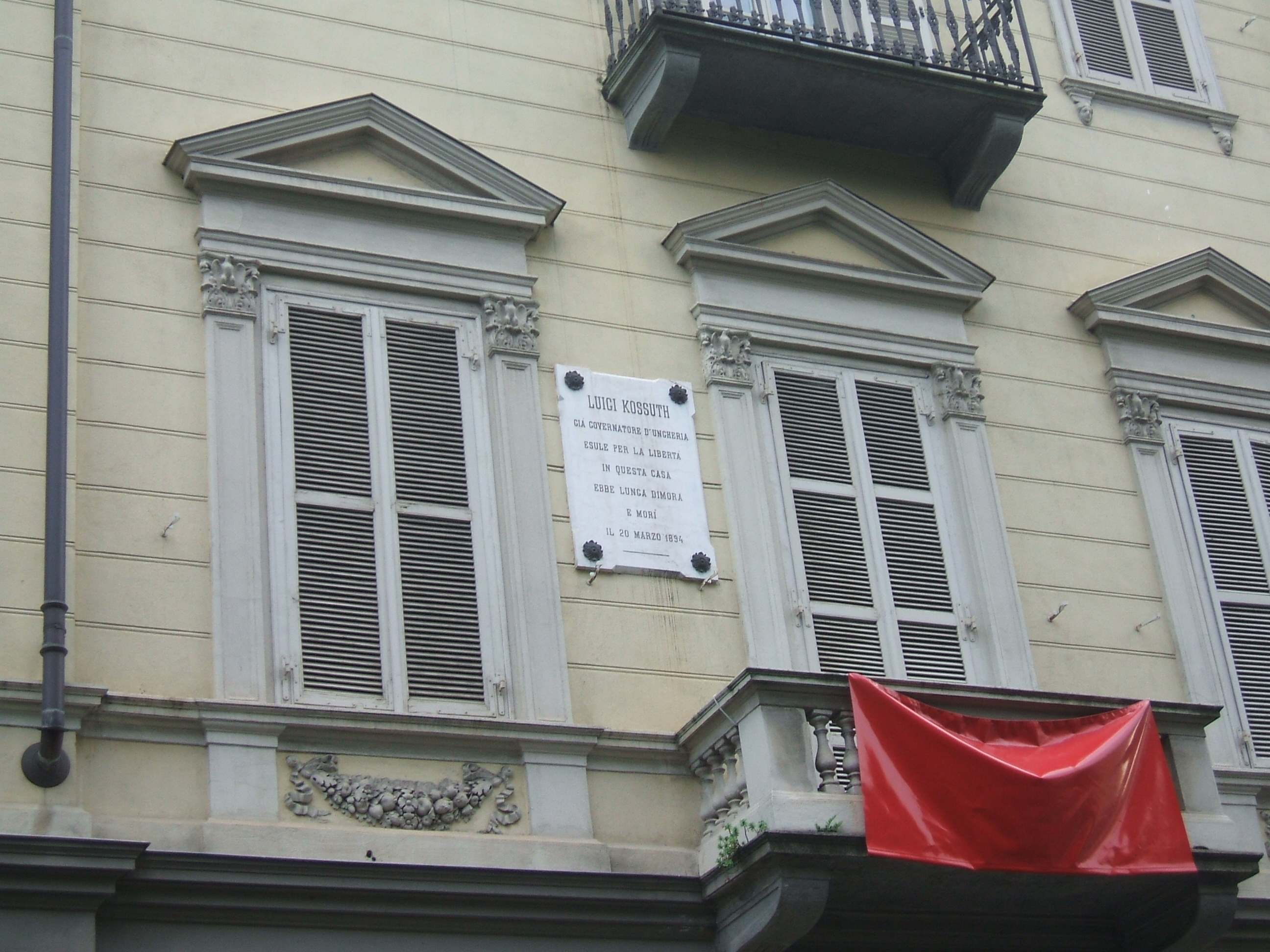 house of Lajos Kossuth in Turin